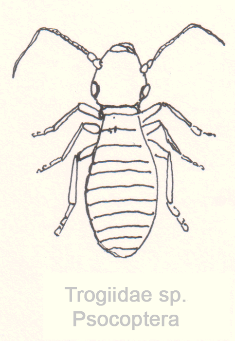 Trogiidae sp. Psocoptera - A drawing by Halvard from Norway.